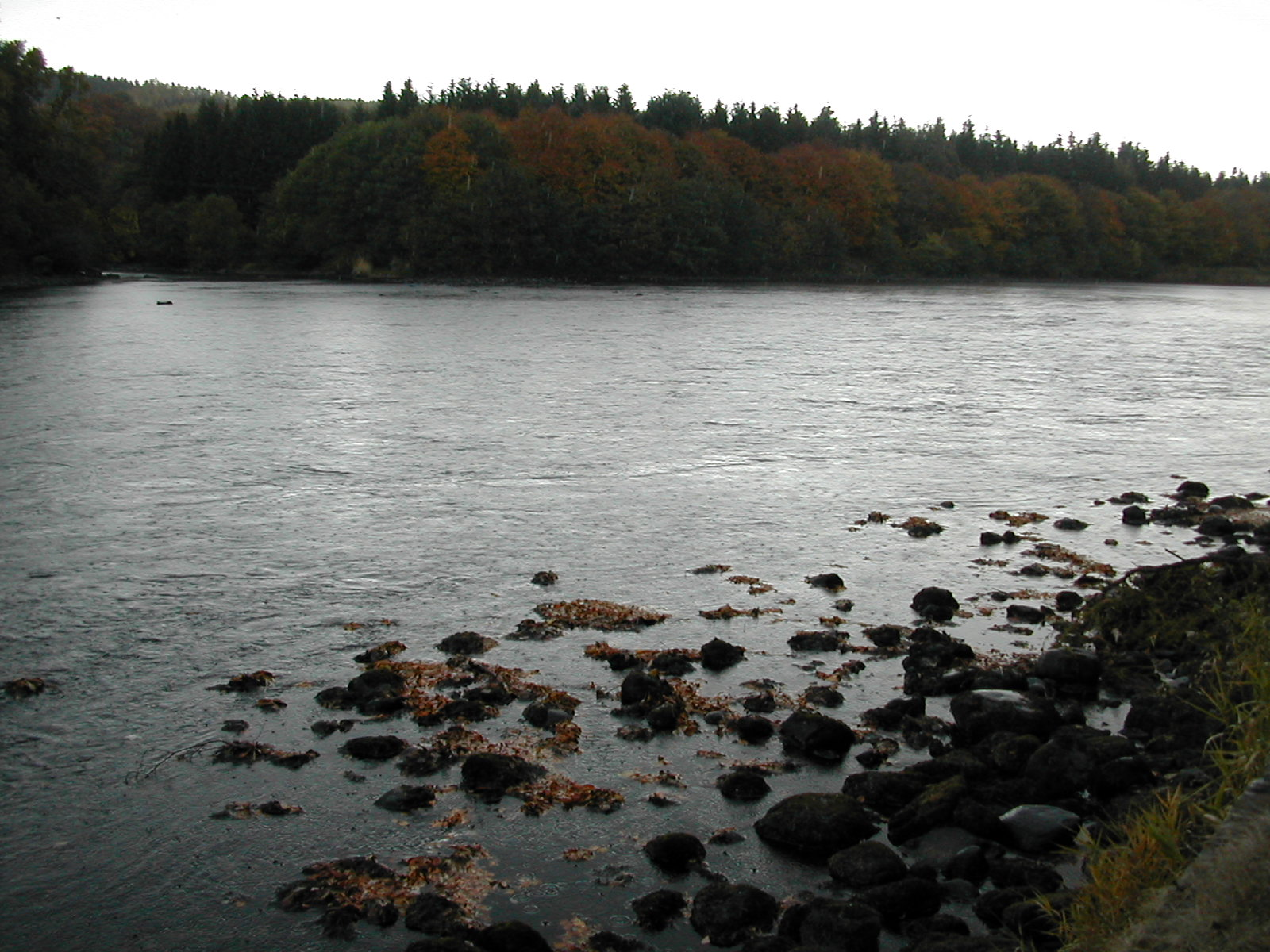 Nom du fichier : DSCN2461.JPG Taille du fichier : 360.0 Ko (368609 octets) Date : 2003/10/25 15:58:20 Taille de l'image : 1600 x 1200 pixels Résolution : 300 x 300 ppp Profondeur en bits : 8 bits/canal Attribut de protection : Désactivé Attribut Masqué : Désactivé ID de l'appareil : N/A Appareil : E775 Mode de qualité : NORMAL Mode de mesure : Multizones Mode d'exposition : Programme Auto Speed Light : Non Distance Focale : 5.8 mm Vitesse d'obturation : 1/359.8 seconde Ouverture : F2.8 Correction d'exposition : 0 IL Balance des blancs : Auto Objectif : Intégré Mode Synchro-Flash : Premier Rideau Différence d'exposition : N/A Programme Décalable : N/A Sensibilité : Auto Renforcement de la netteté : Auto Type d'image : Couleur Mode Couleur : N/A Saturation : N/A Contrôle Saturation : N/A Compensation des tons : Normal Latitude (GPS) : N/A Longitude (GPS) : N/A Altitude (GPS) : N/A